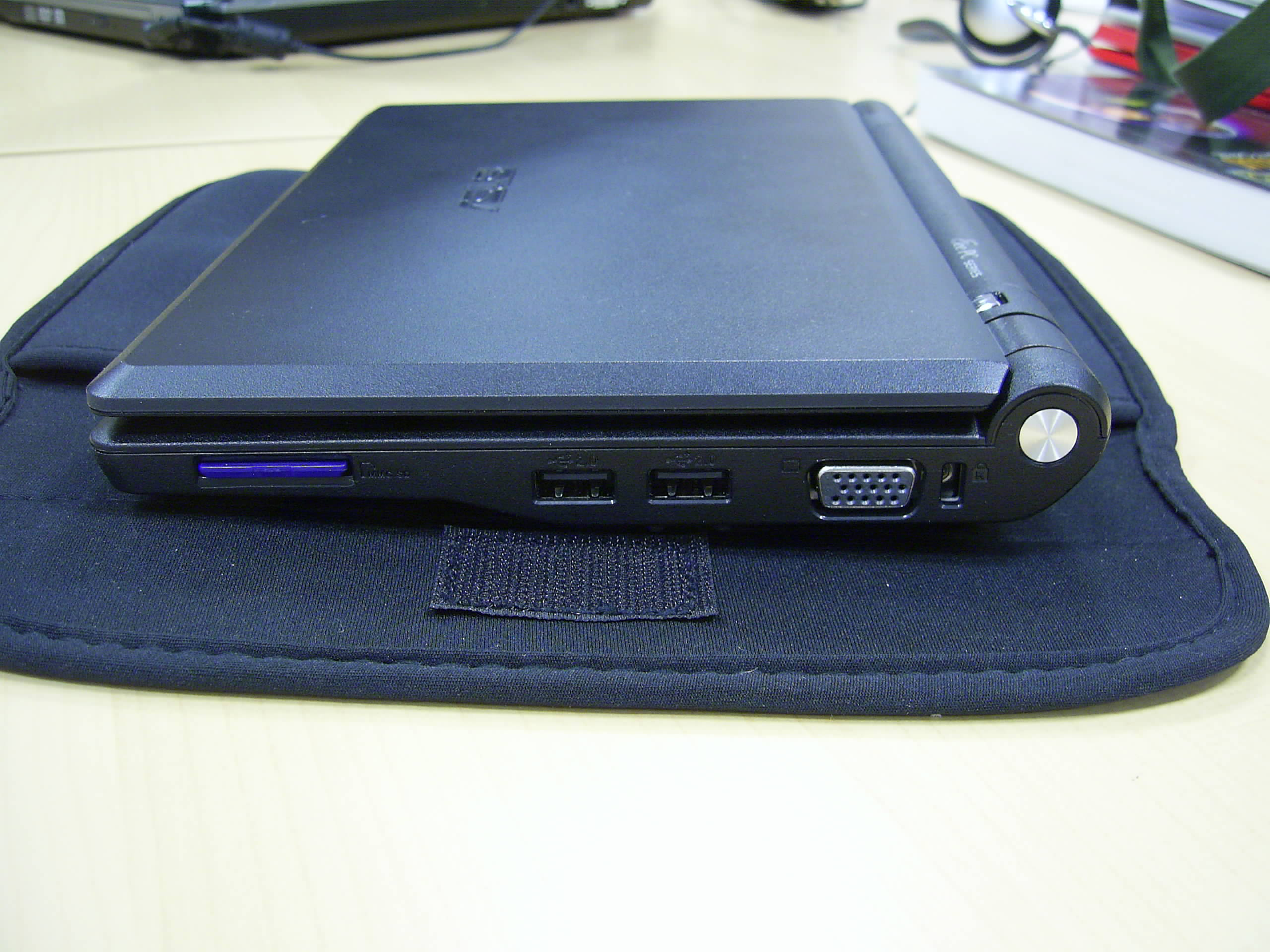 Asus Eee PC connectors: VGA, 2x USB2.0 and SD Card reader